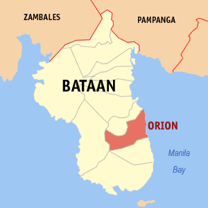 Map of Bataan showing the location of Orion